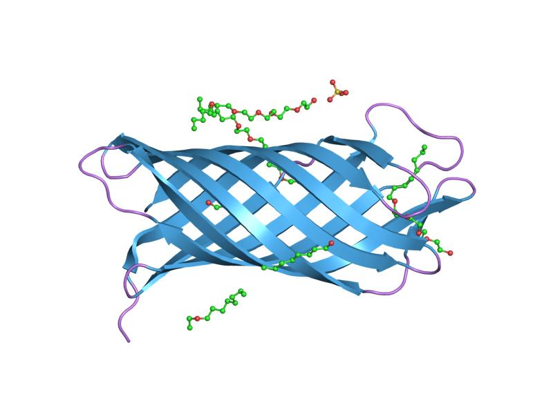 Cartoon representation of the molecular structure of protein registered with 1p4t code.